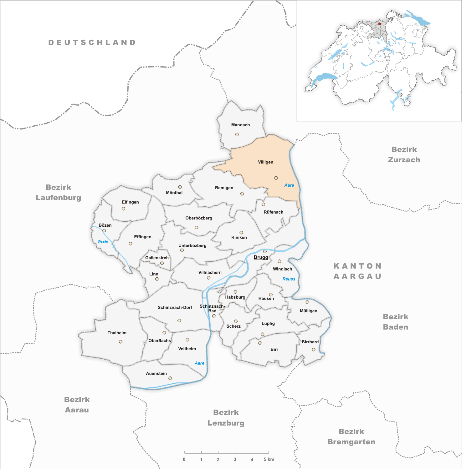 Municipality Villigen